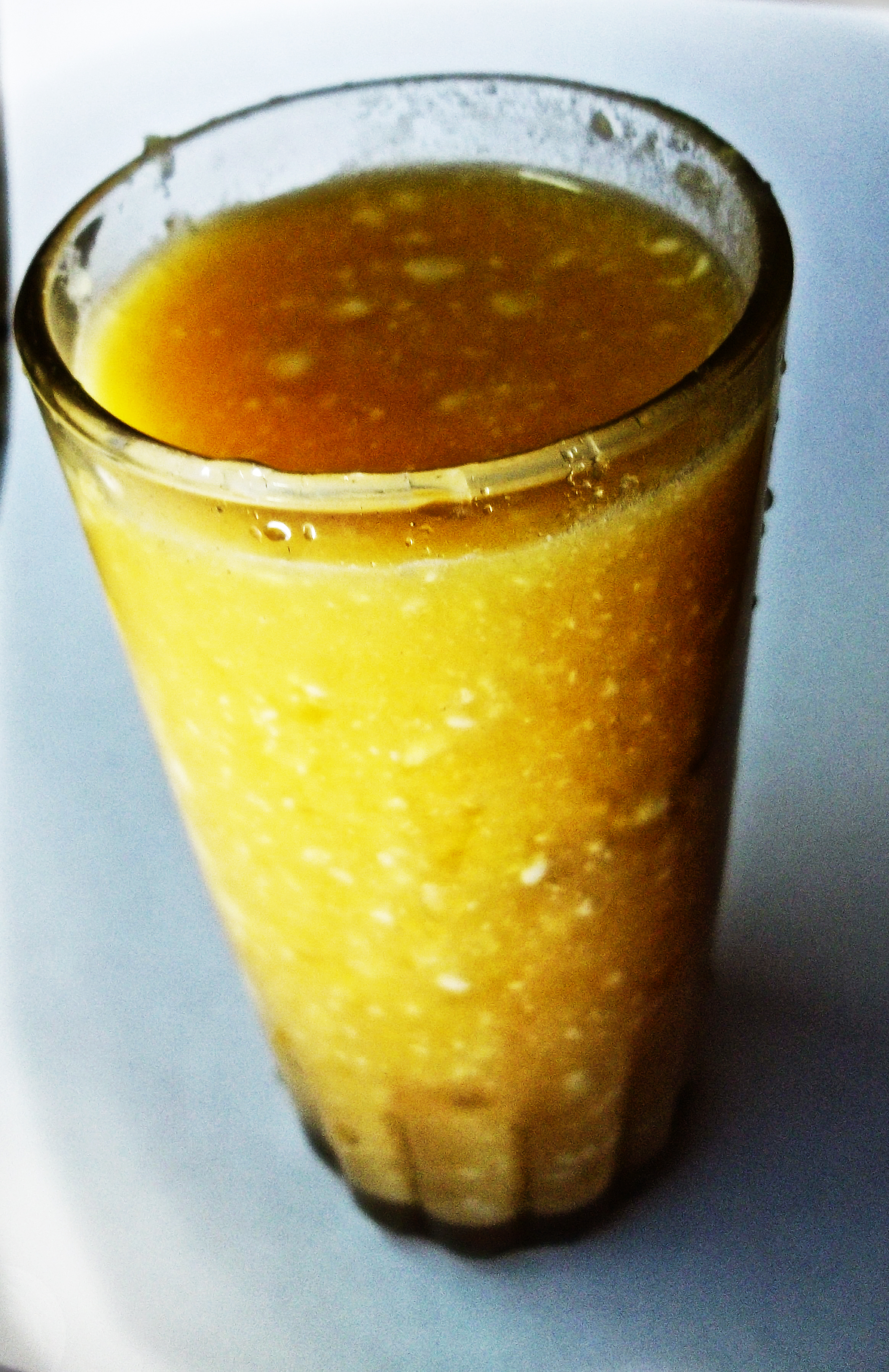 Bela pana, a traditional drink from Odisha (Orissa) made of ripen Bela.ଓଡ଼ିଆ: ଓଡ଼ିଶାରେ ତିଆରି ବେଲପଣା । This media file is uploaded with Odia loves Wikipedia